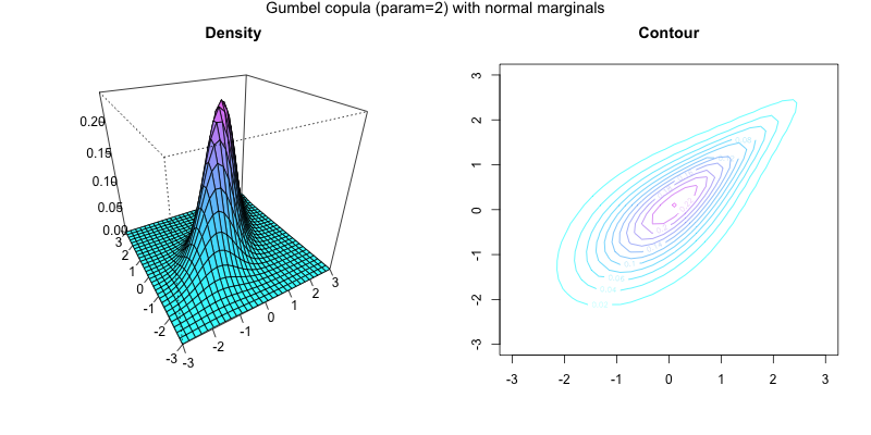 Density and contour plot of a Bivariate Distribution, the density of the join distribution is obtained by joining a Gumbel Copula (param=2) with two identical Gaussian univariate distributions (mean=0, sd=1).